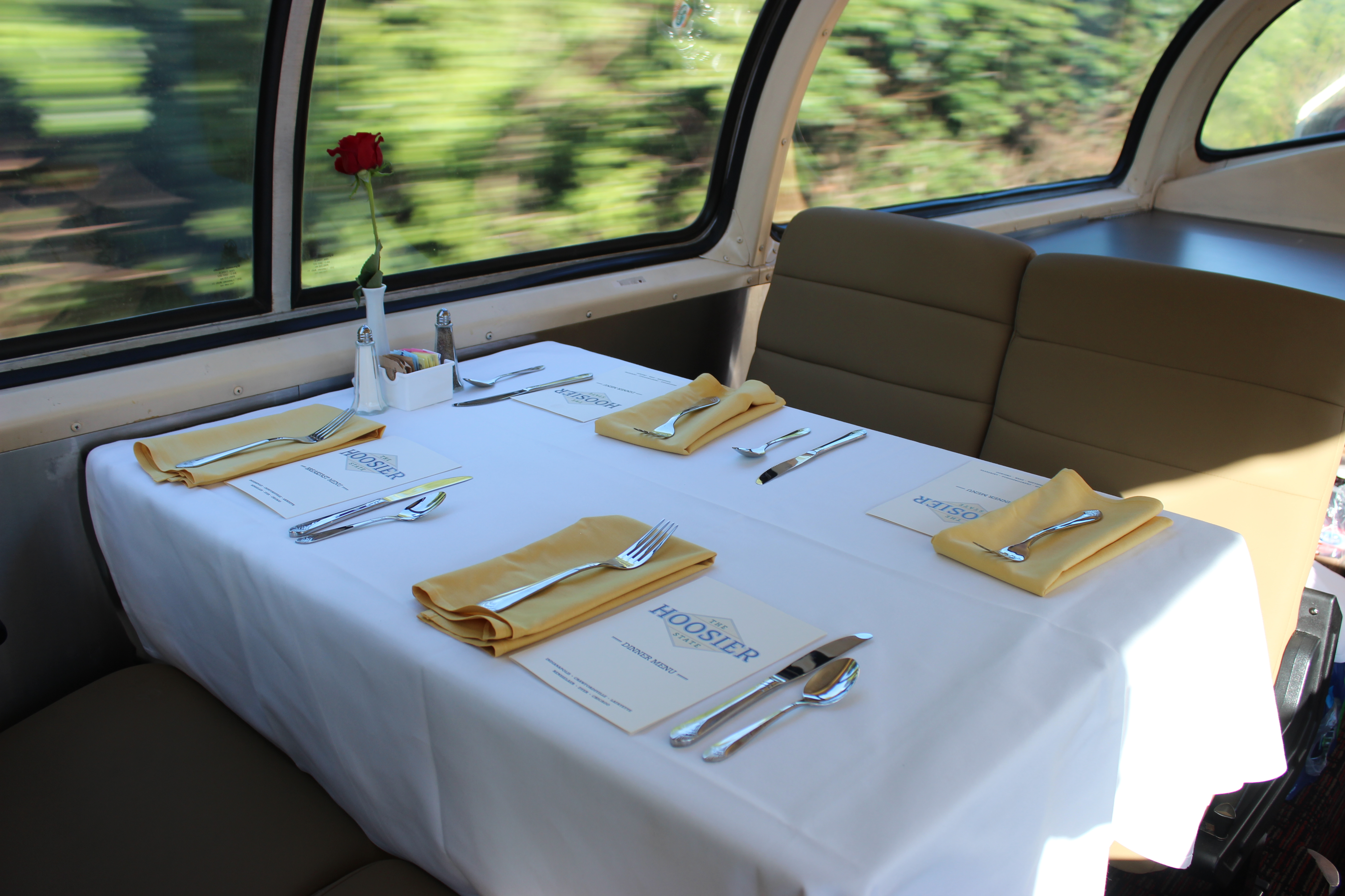 Table setting in the dome car on the Hoosier State in 2015